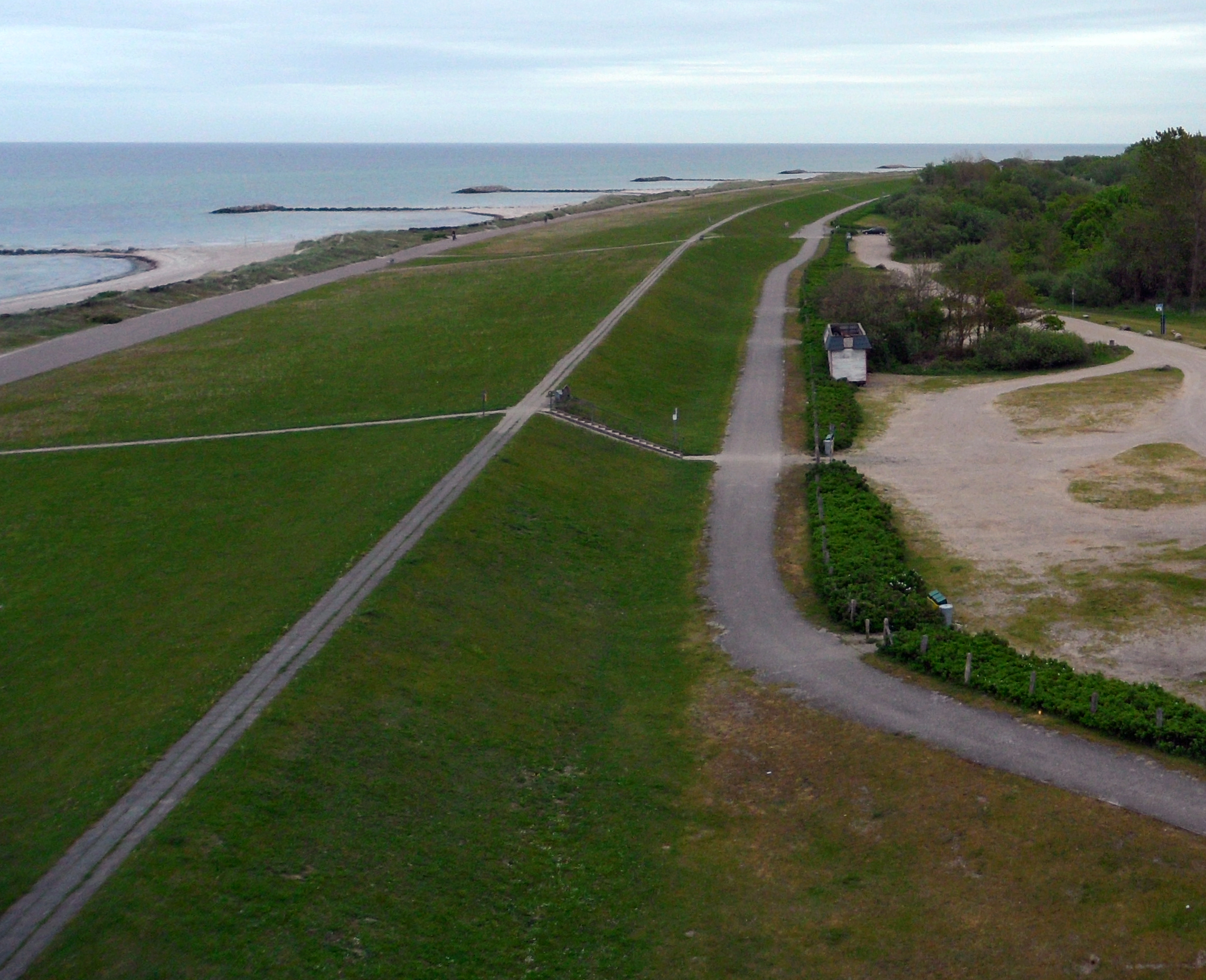 Beach and parkings from Leuchtfeuer Heidkate